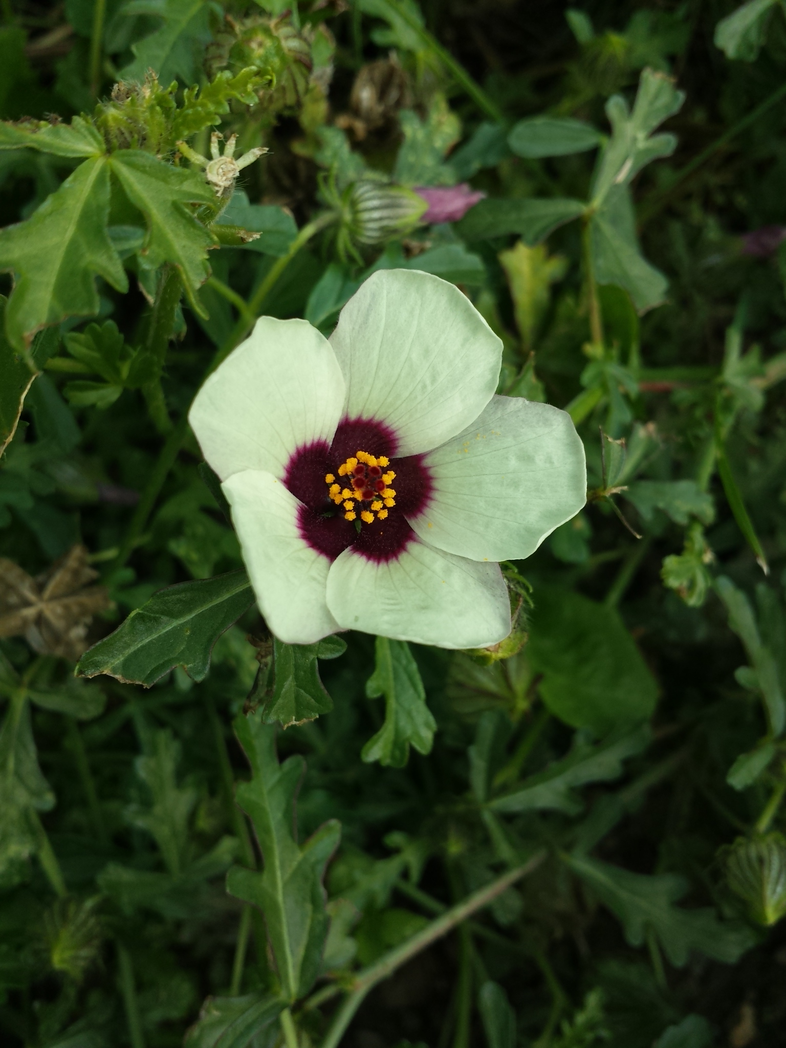 Hibiscus trionum, a common wildflower in eastern North America. Indiana.